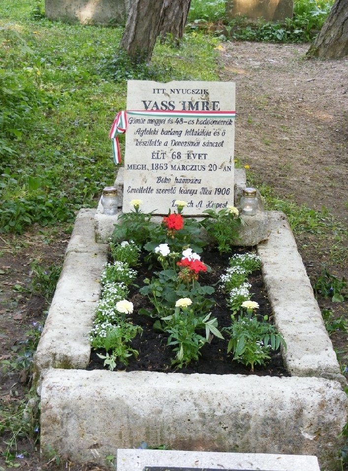 Grave of Imre Vass in Sárospatak